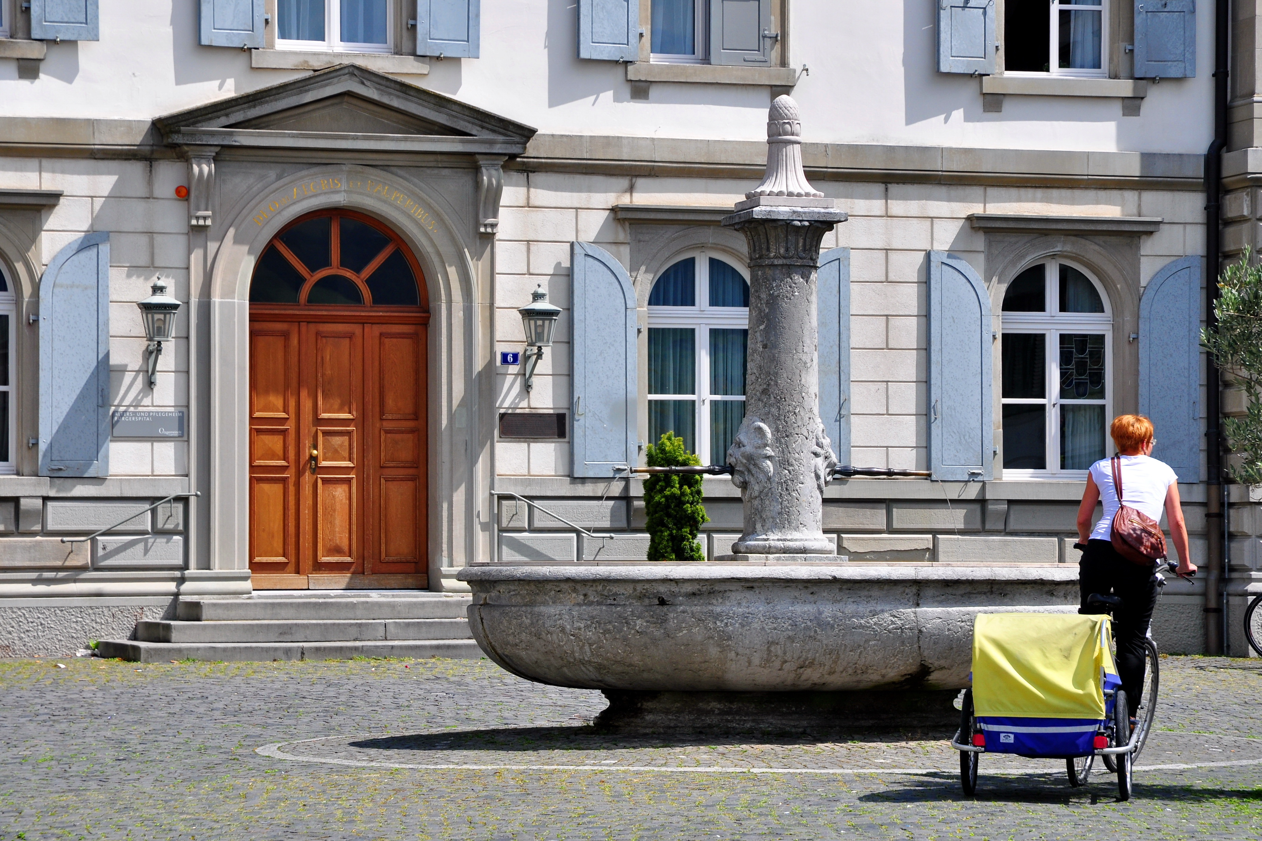 The former Heiliggeist-Spital (1845, first mentioned in the 13th century A.D.) at Fischmarktplatz in Rapperswil (Switzerland)